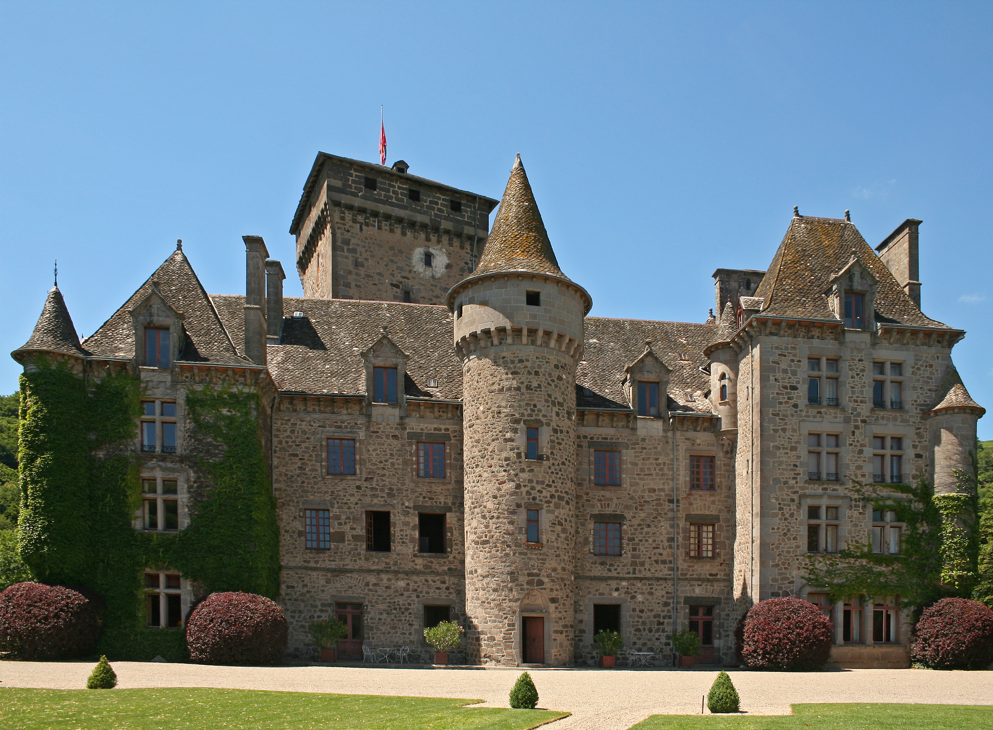 Front view of the Pesteils castle, near Polminhac, in Cantal (France).